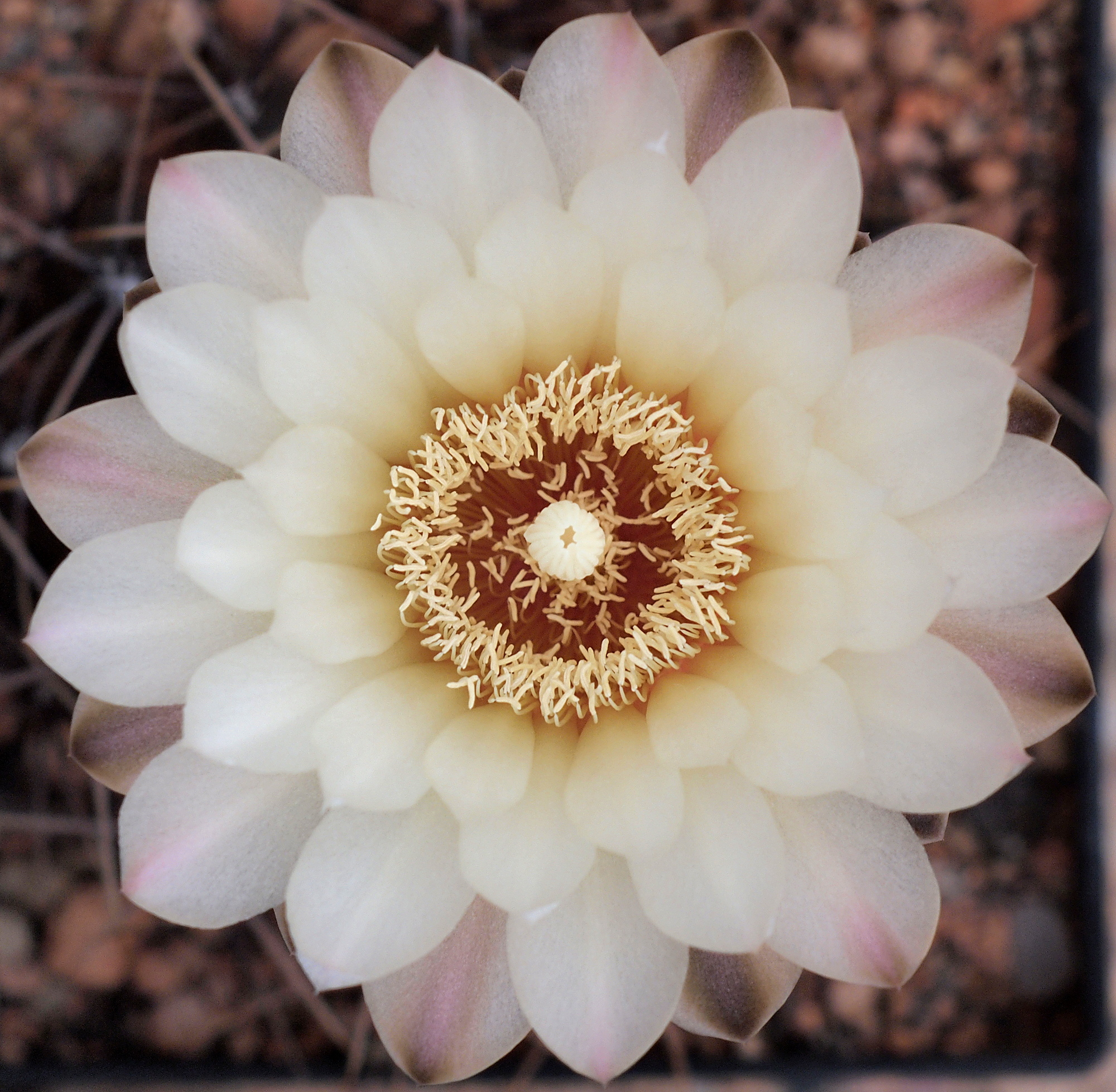 Flower of Gymnocalycium gibbosum